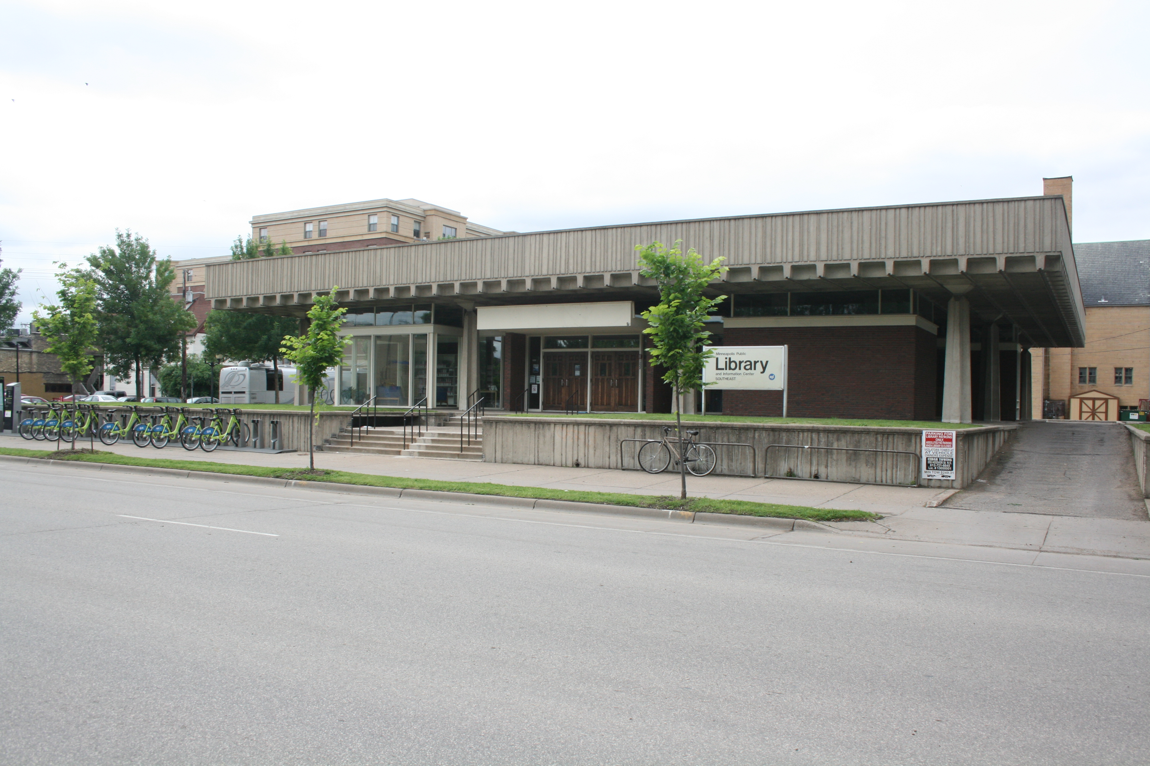 The Southeast Community Library, part of the Hennepin County Library, in Dinkytown.